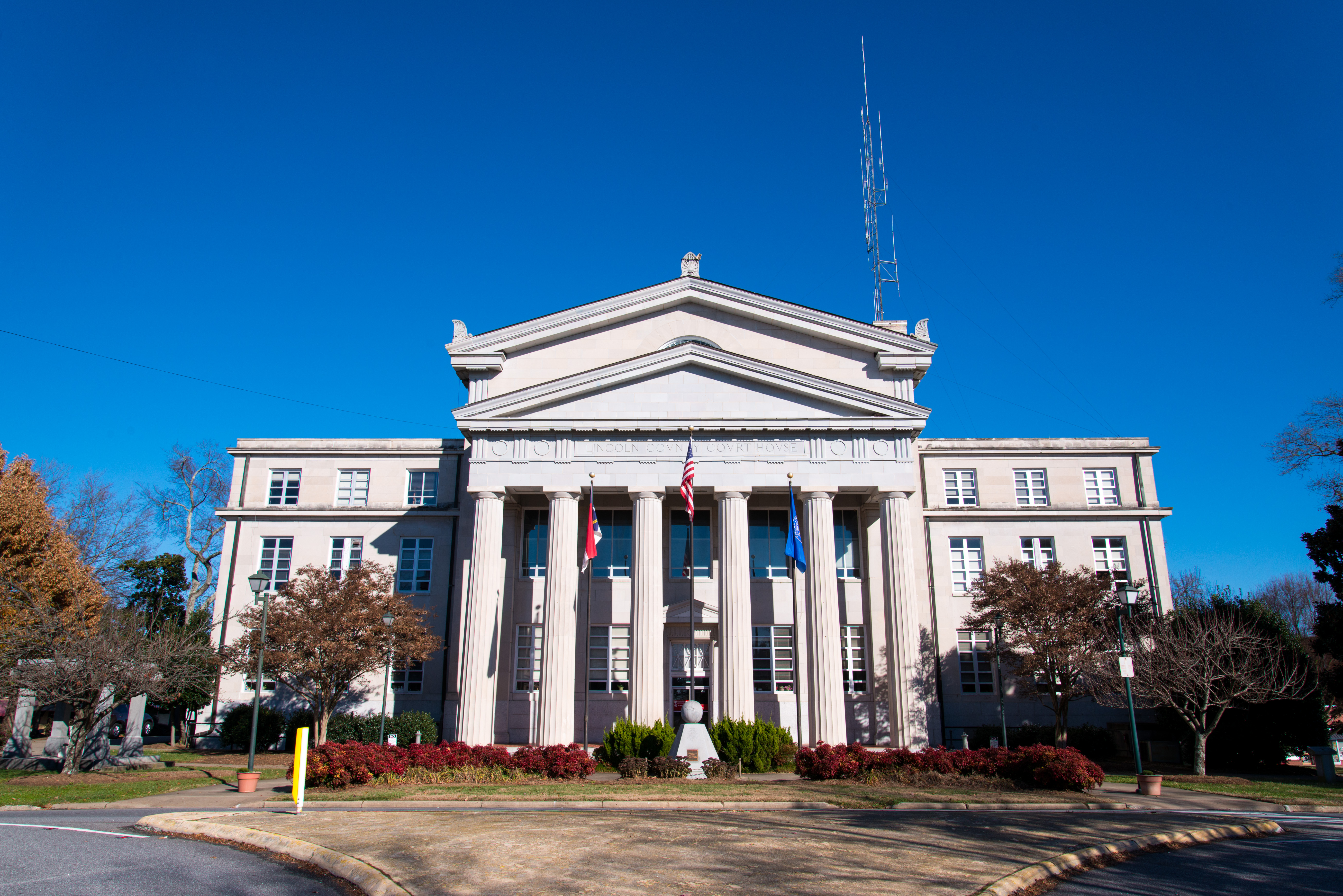 Lincoln County Courthouse, located center of Court Square Drive, in downtown Lincolnton, North Carolina.